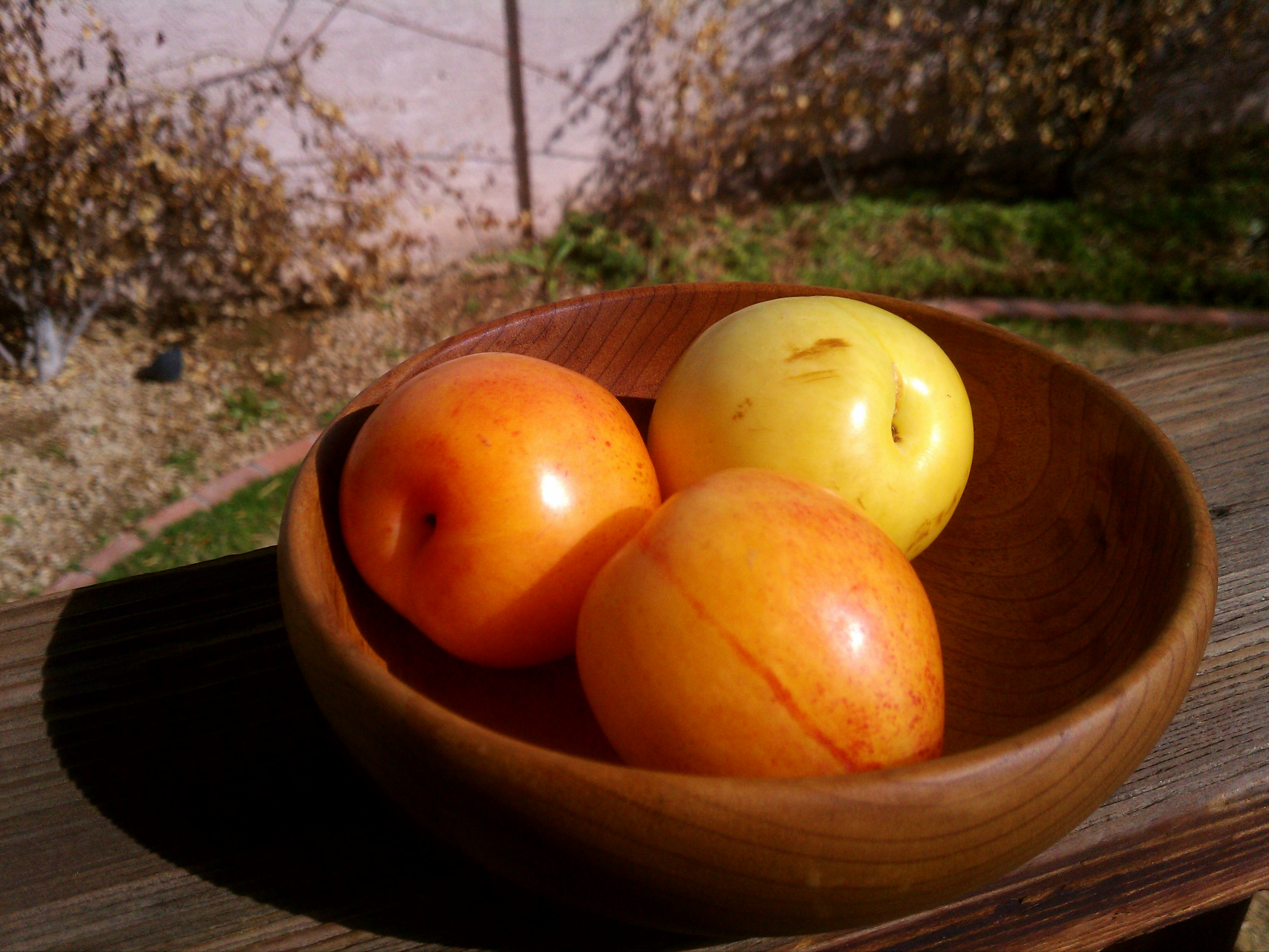 A bowl of lemon plums.